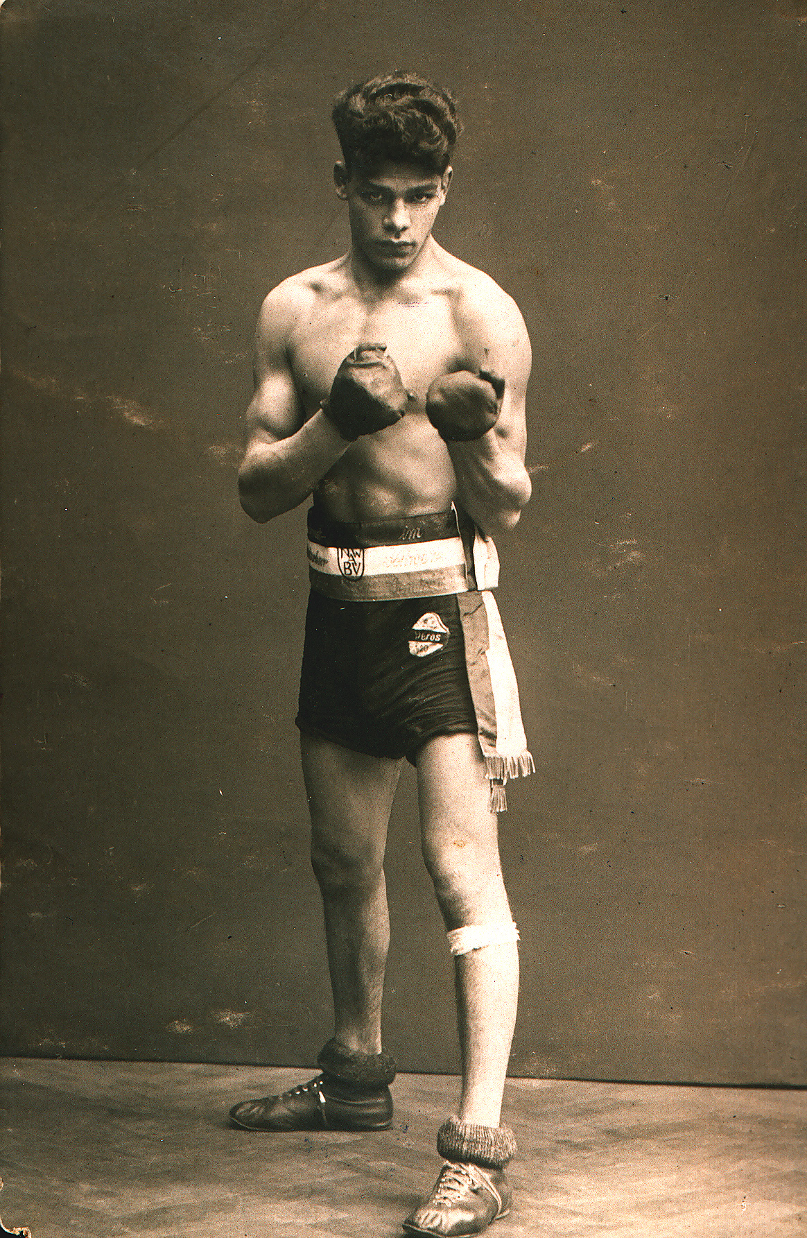 Johann Wilhelm Trollmann original caption: Johann Trollmann als Norddeutscher Meister der Amateure beim Verein "Herus"/Hannover, 1928